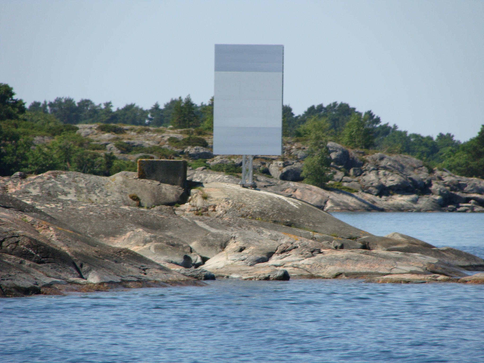 A day beacon (aid to navigation) on an islet south of Storlandet island in Archipelago Sea in Finland.